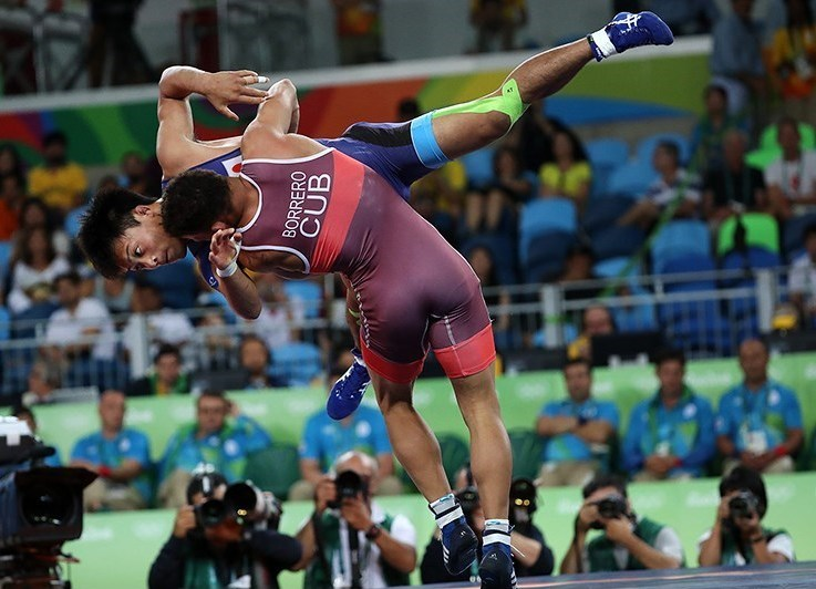 Rio 2016; Greco-Roman Wrestling 59 kg